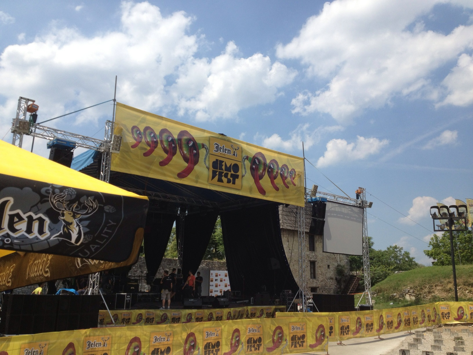 Demofest06 - Thursday